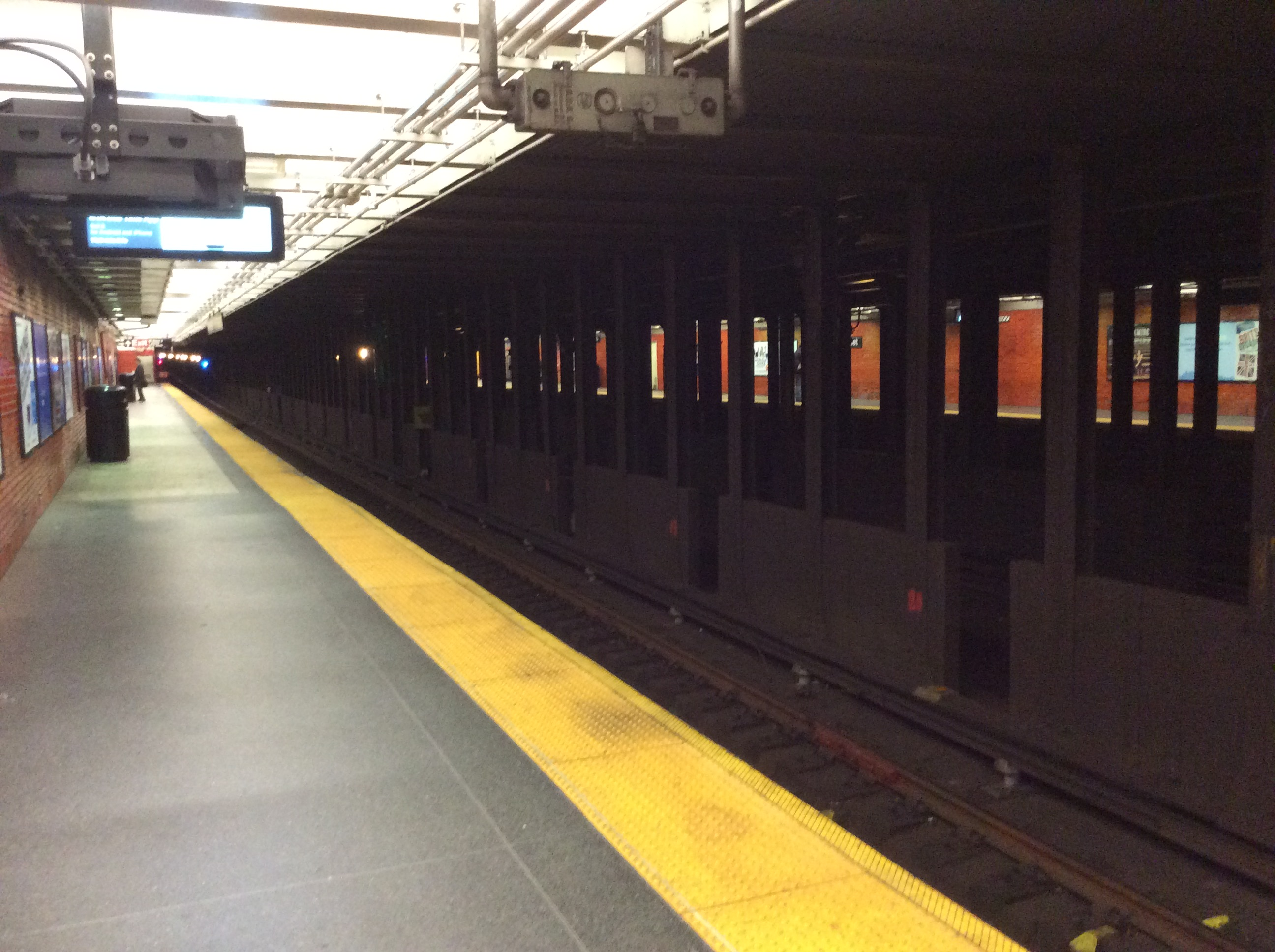 The 49th Street station on the BMT Broadway Line in April 2017